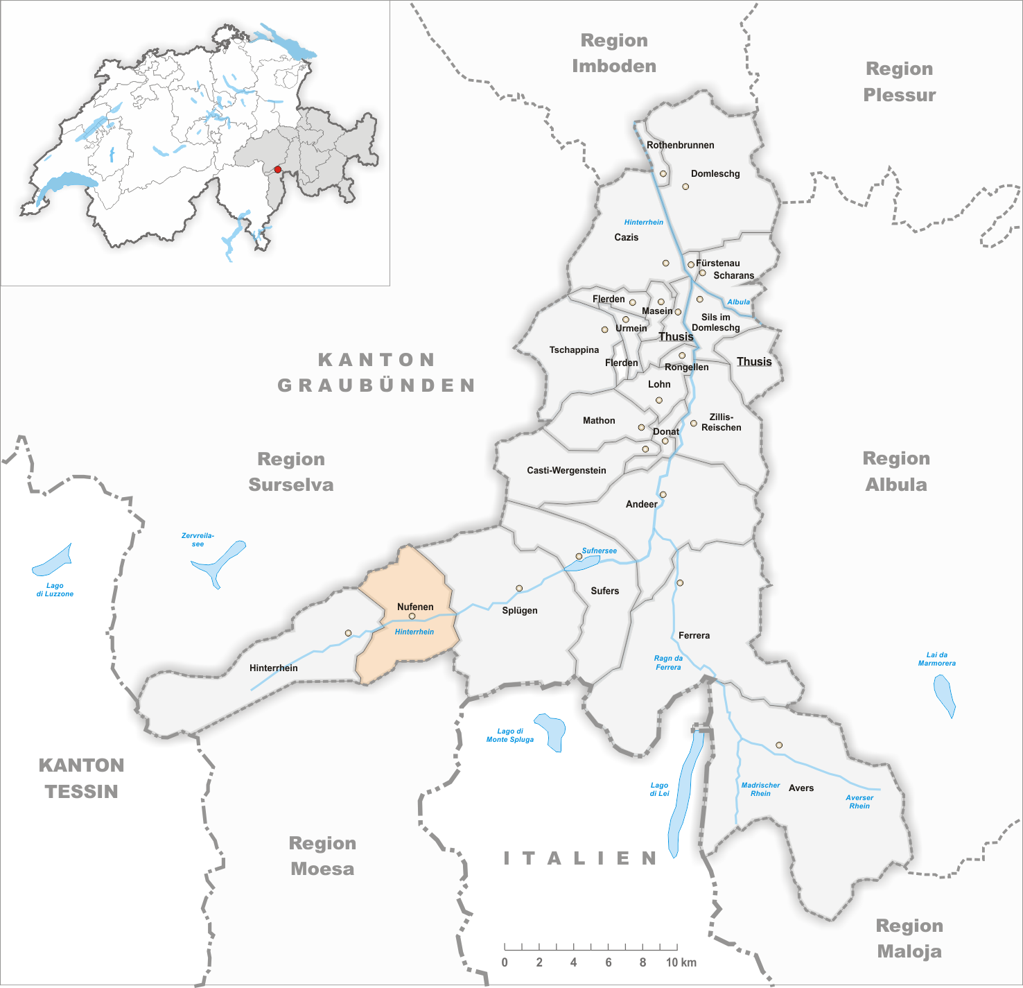 Municipality Nufeneneer